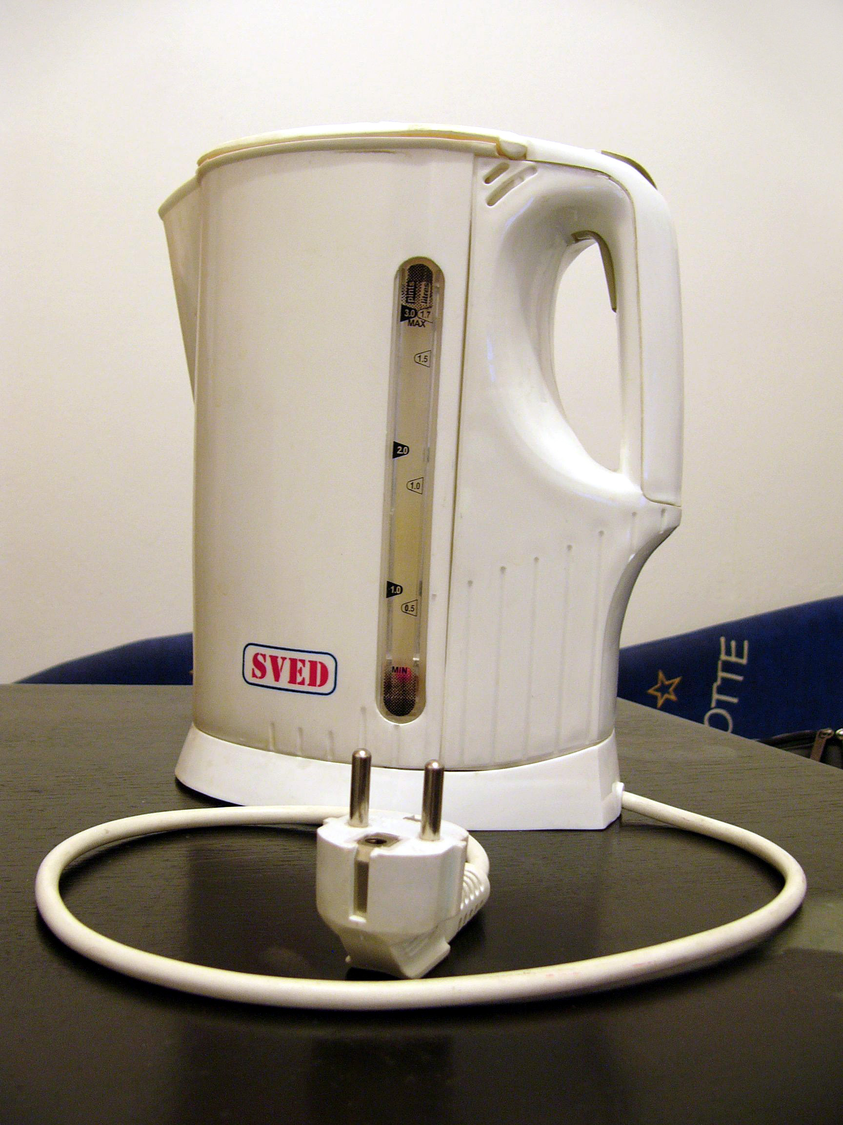 Electric kettle, photo taken by Petr.adamek in Semptember 2005.